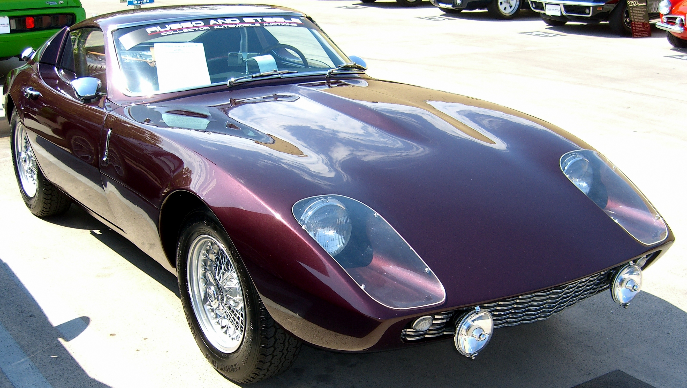 Fiberfab Jamaican body on 1959 Austin Healey 100-6 chassis and running gear.